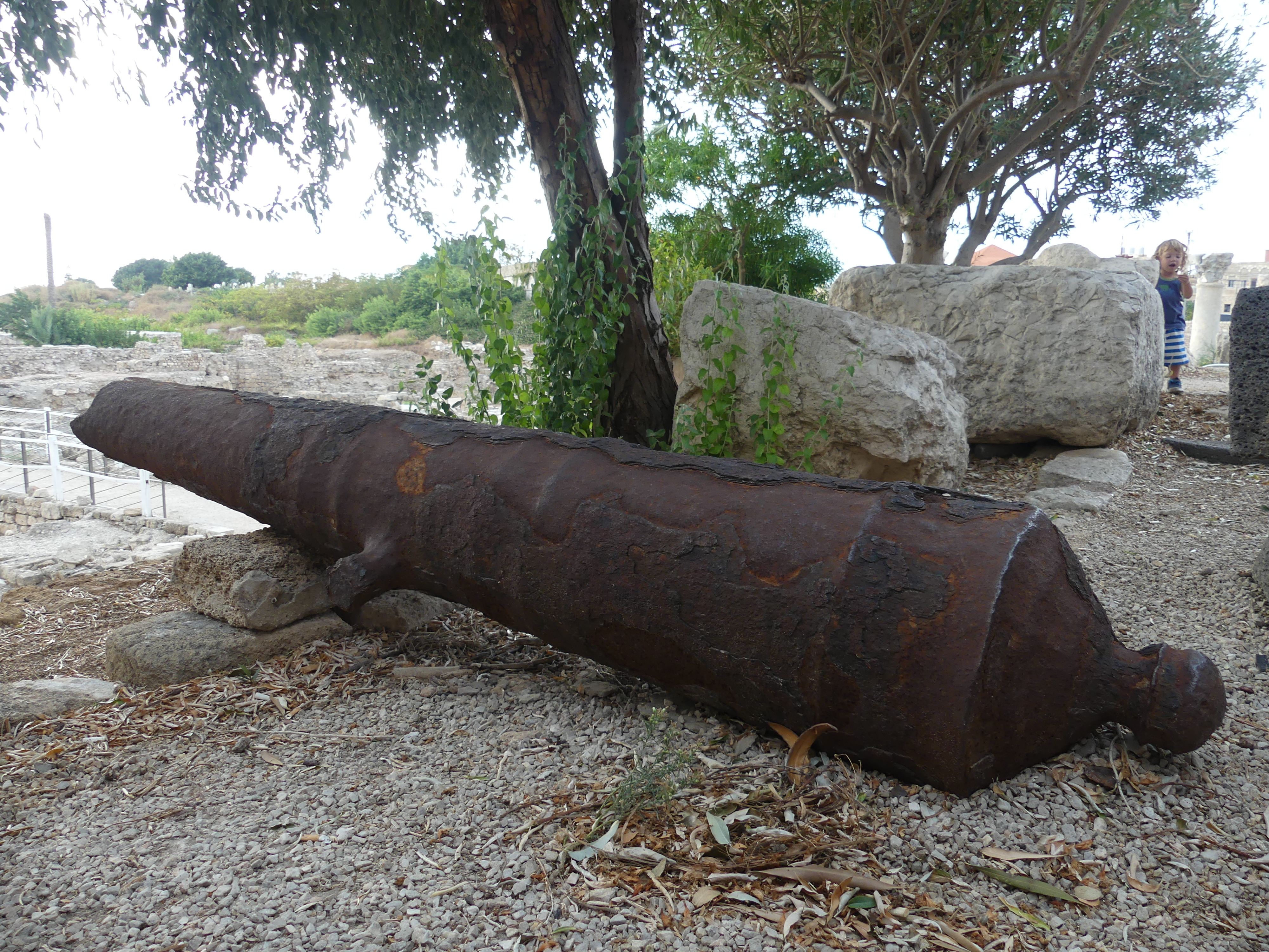 A rusty cannon from the Ottoman era at the archaeological Al Mina / City site in Tyre/Sour, Southern Lebanon